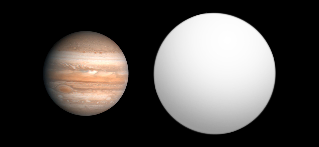 Comparison of best-fit size of the exoplanet Kepler-5 b with the Solar System planet Jupiter, as reported in the Extrasolar Planets Encyclopaedia[1] as of 2010-10-03. ↑ Extrasolar Planets Encyclopaedia (2010-09-30). Retrieved on 2010-10-03.